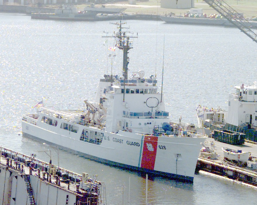 "The U.S. Coast Guard Cutter Durable (WMEC 628) moored at the Coast Guard shipyard."